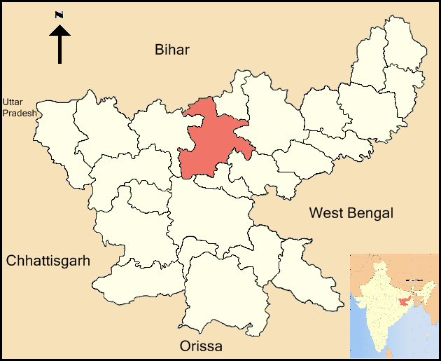 An locator map of Hazaribagh district, Jharkhand state, India